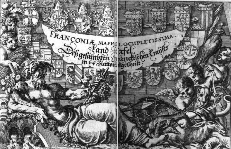 "S. R. IMP. Circuli Franconici Geographica Delineatio" (1692) (first page), Georg Conrad Jung (kartograf) & Wolfgang Moritz Endter